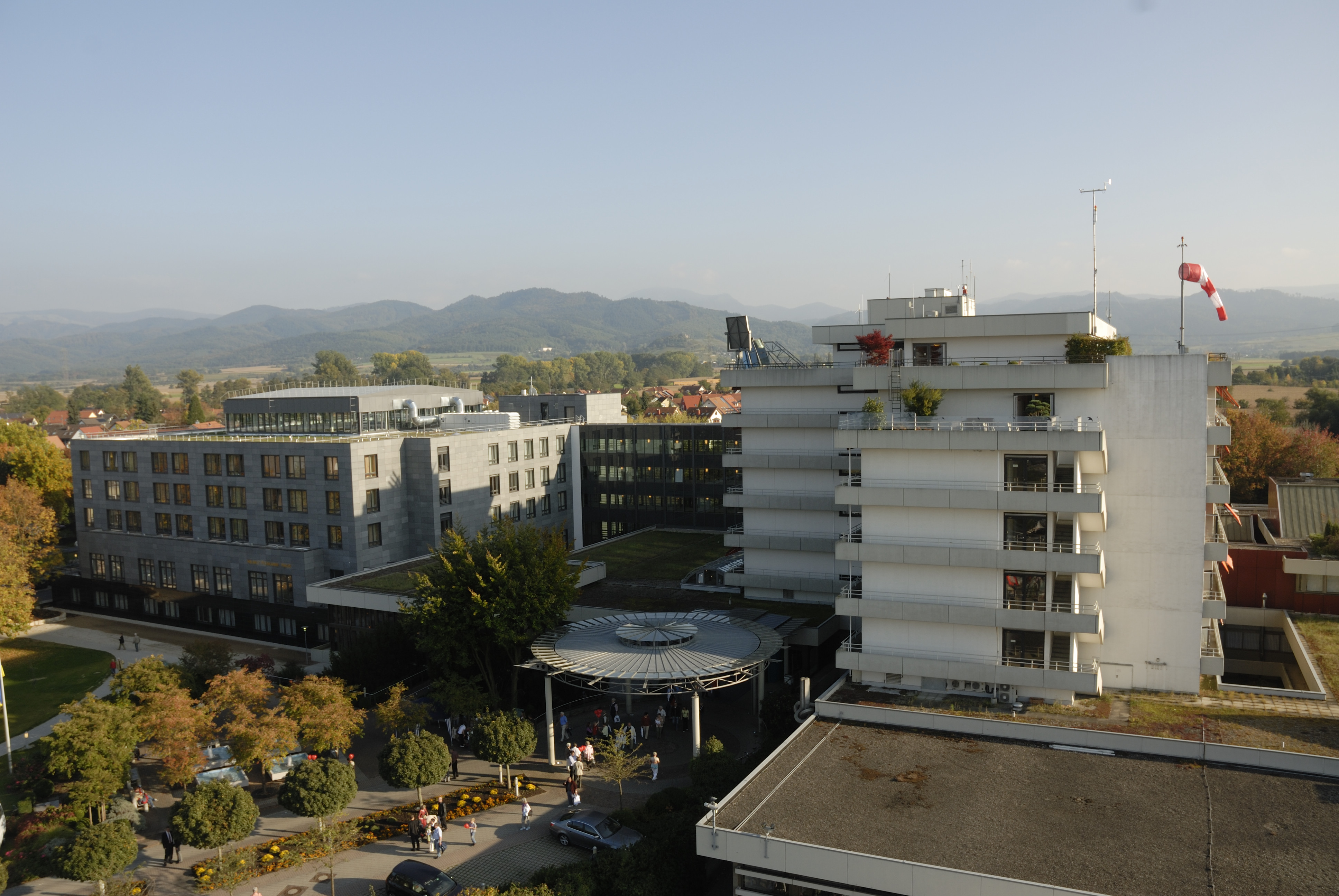 Herz-Zentrum Bad Krozingen